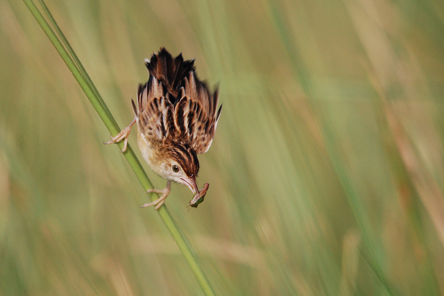 ZittingCisticola-VedanthangalScrub